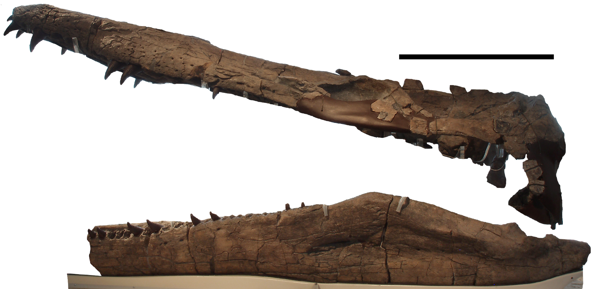 The mounted skull of DORCM G.13,675 in left lateral view. Scale bar equal 500 mm.